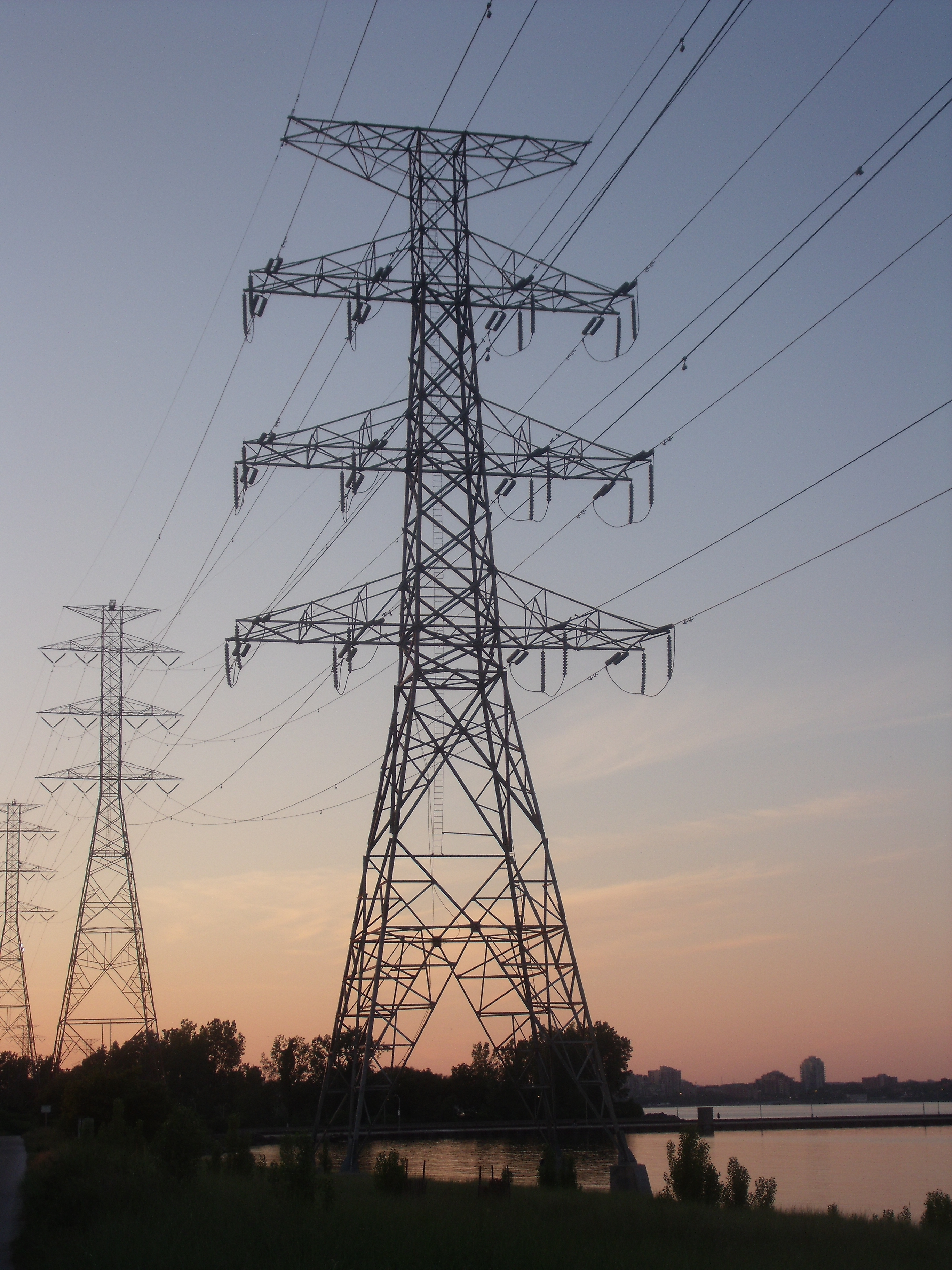 Electricity pylons, Hamilton, Ontario, Canada.